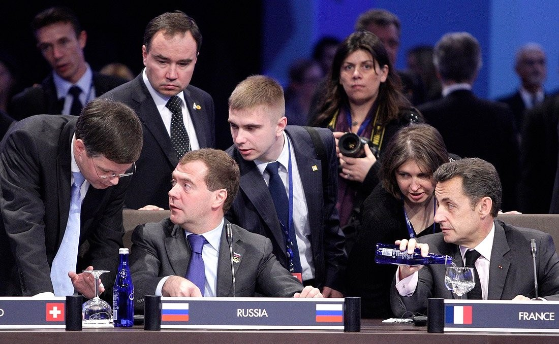 During the Nuclear Security Summit. Right: President of France Nicolas Sarkozy.